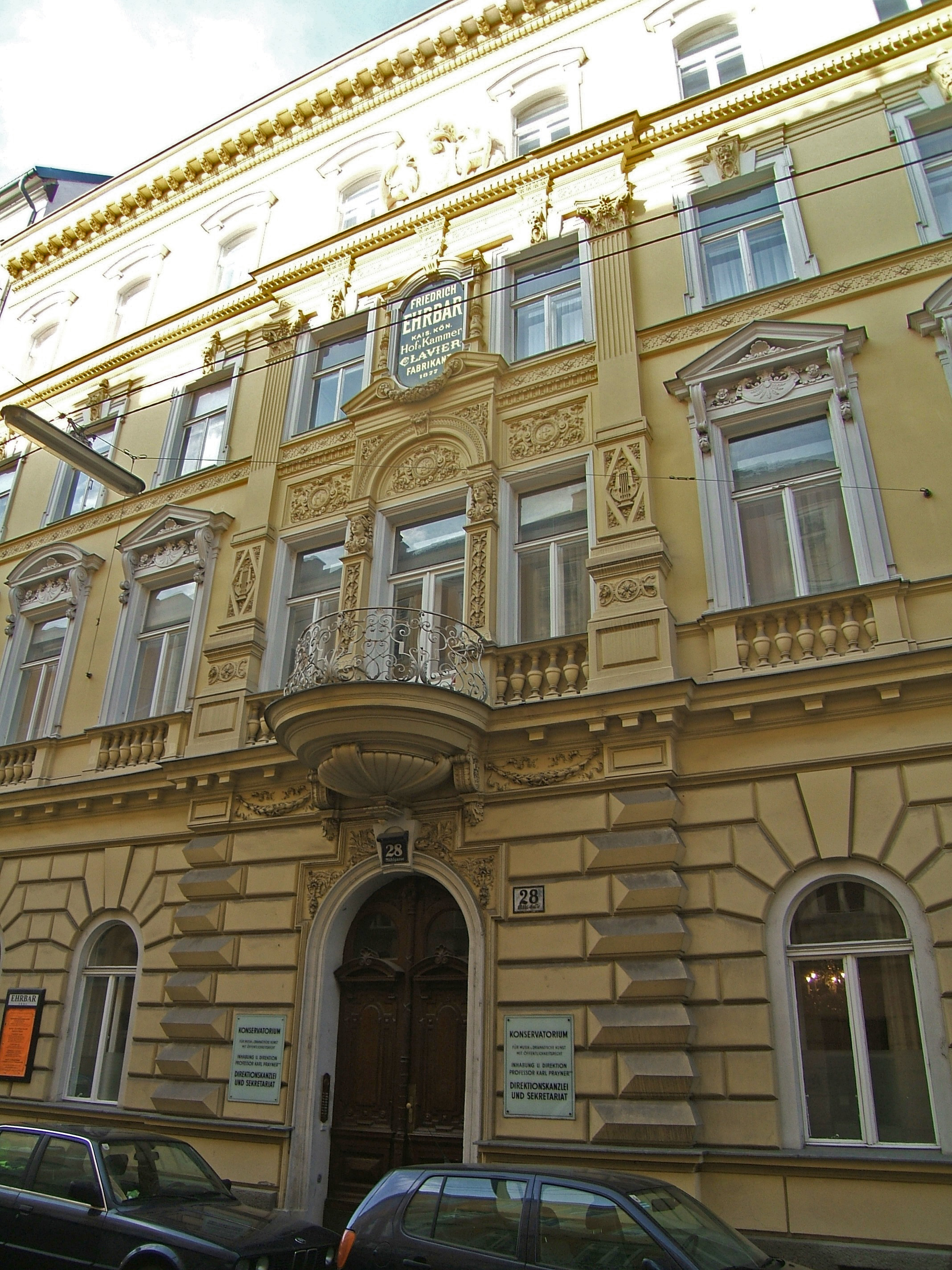 Palais Ehrbar in Vienna 4th district Mühlgasse 28